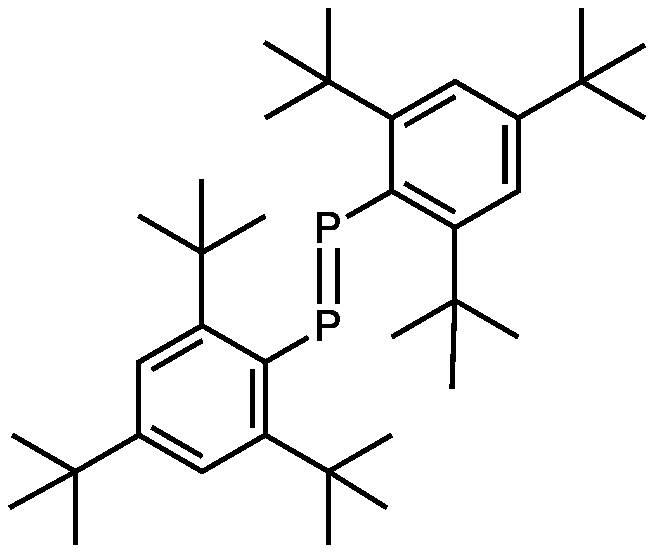 corrected structure of the first diphosphine